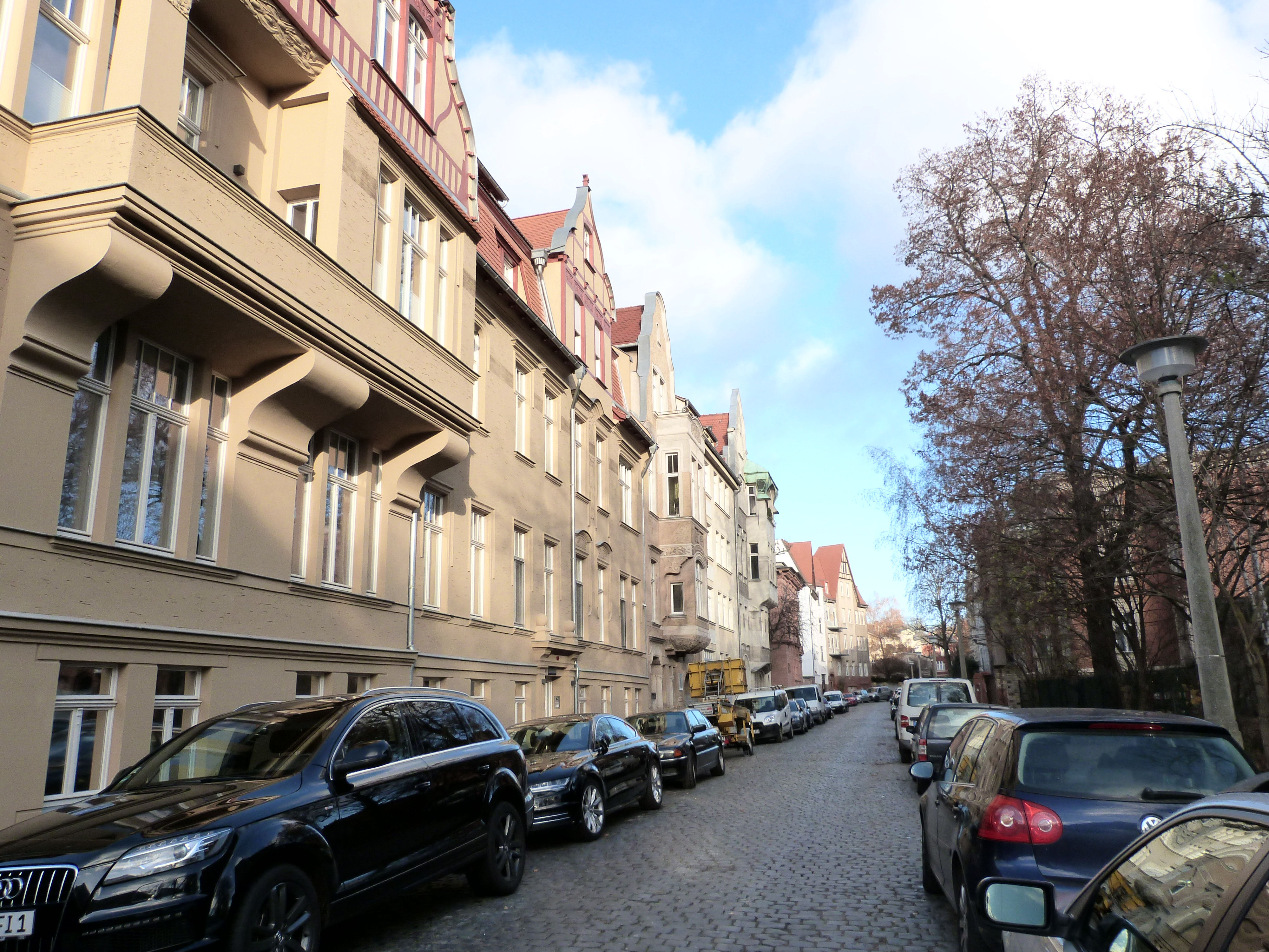 Ulestrasse in Halle (Saale), Saxony-Anhalt